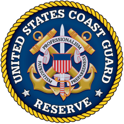 Seal of the United States Coast Guard Reserve